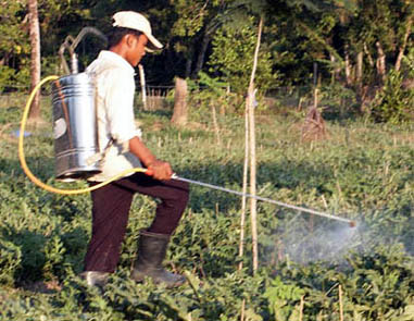 Manual sprayer. Cat Tien, Viet Nam